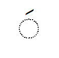 The letter Fatha from the Arabic alphabet, belonging to the group of Harakat diacritic marks, used to represent vowels. Fatha sounds like a short /a/. The circle indicates the position of the consonant the Harakat is used upon.